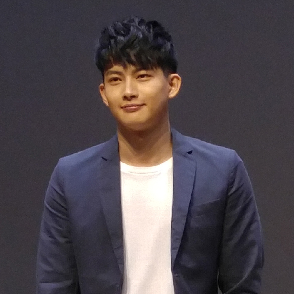 Zhang Ting-hu(張庭瑚), 22th Bucheon International Fantastic Film Festival 《Secrets in the Hot Spring》 Guest Visit